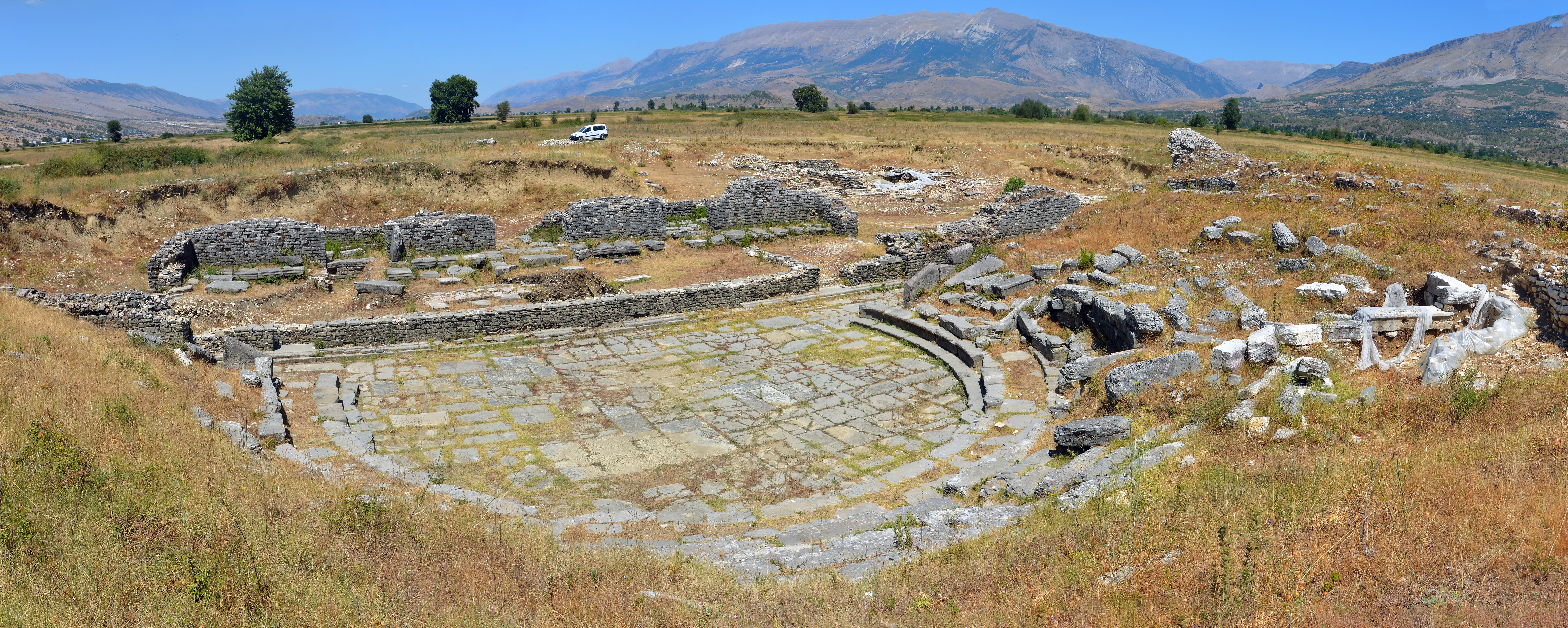 The ruins of the antique theater of Hadrianopolis near Sofratika, Albania